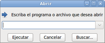 CLI Quick launch, Windows XP style (logo+R) emulated with GTK in Ubuntu Linux.